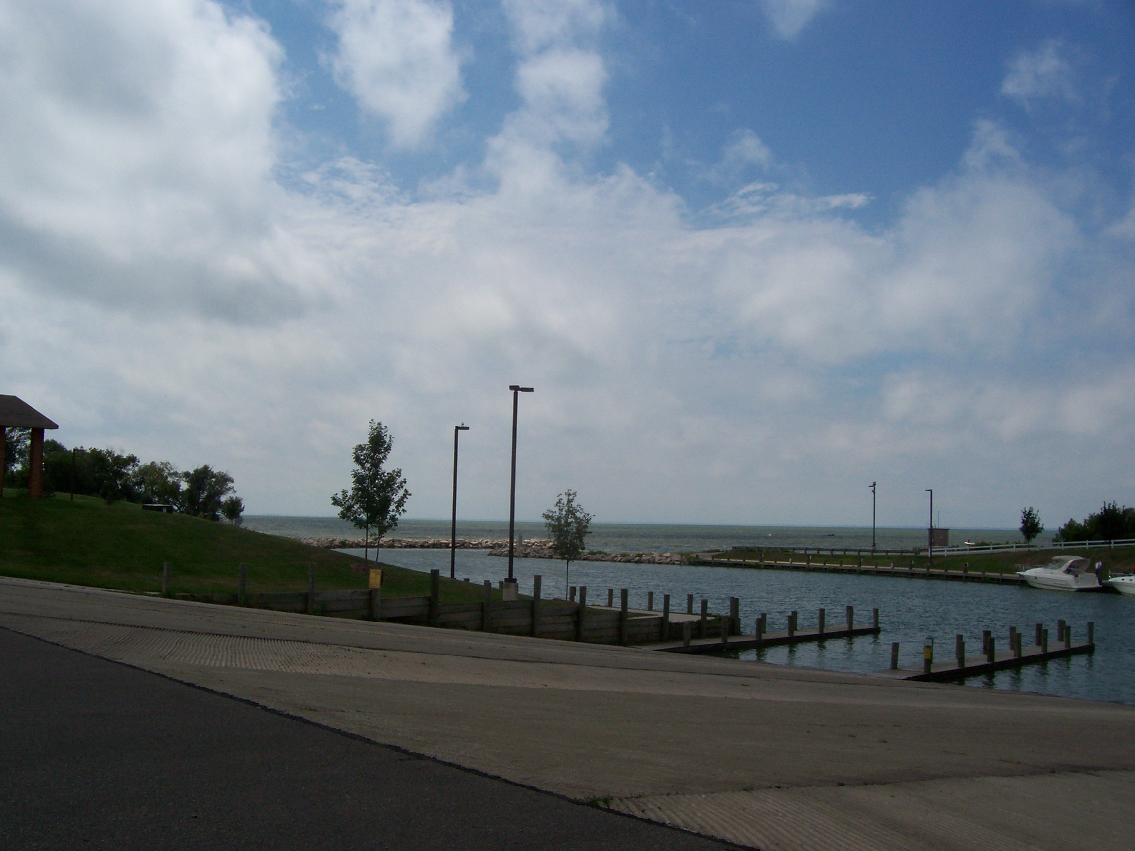 The Stockbridge Harbor on Lake Winnebago, Calumet County, Wisconsin. It is listed on the National Register of Historic Places. I took this image myself on August 6, 2006 (date on camera was set wrong).